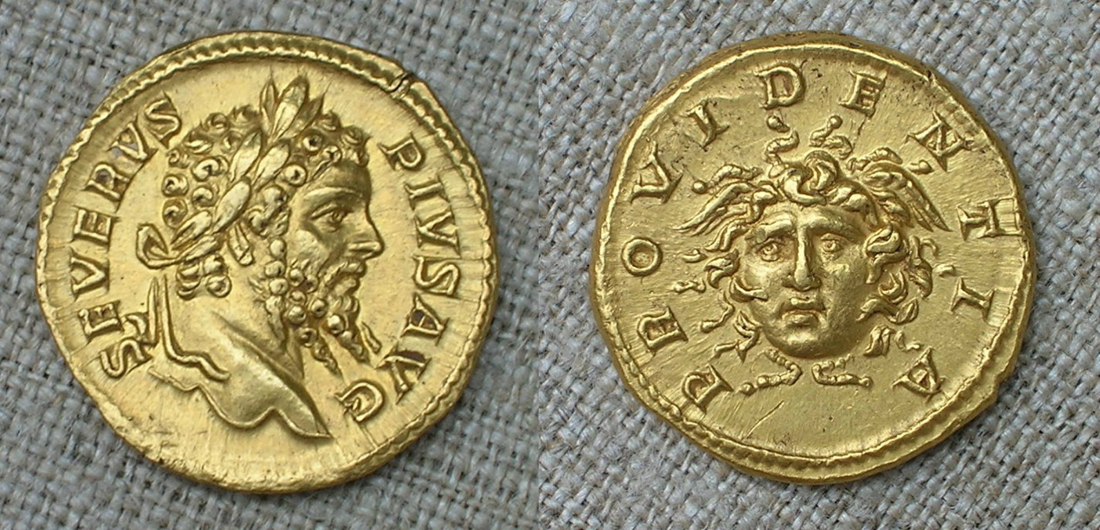 Obverse and reverse of emperor Septimius Severuse's gold coin from the beginning of the 3rd century CE found near Smederevo, Museum in Smederevo